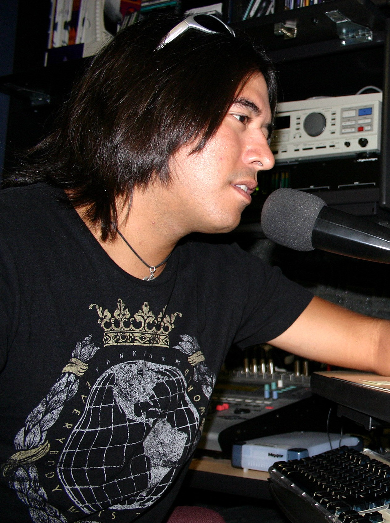 Donovan Chapman visits Air Force Recruiting Service to record two public service announcements with messages of encouragement to people in the military, and those who are getting ready to join July 17 at Randolph Air Force Base, Texas. Mr. Chapman is a country music singer and a former Air Force security forces member.